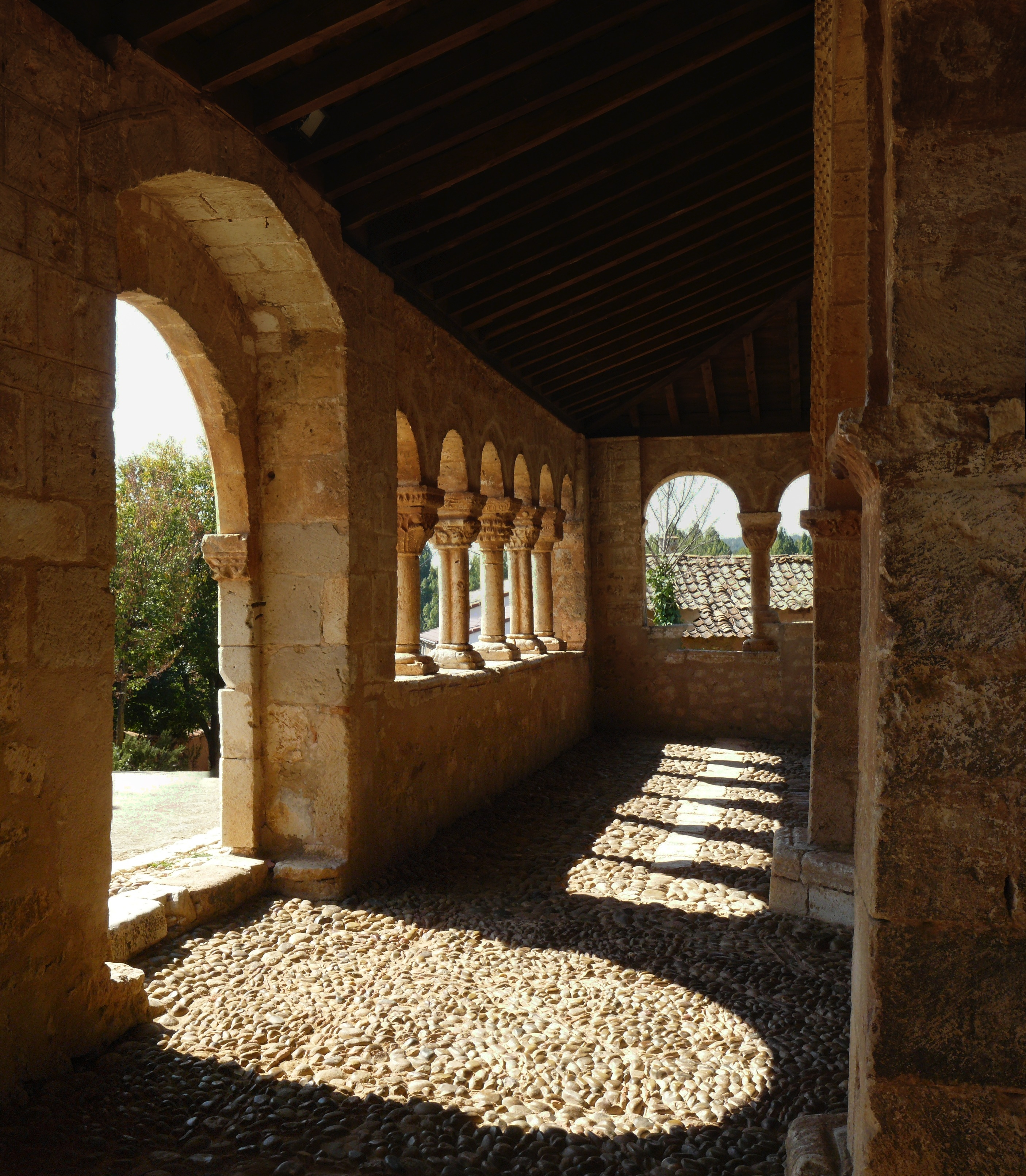 Church of San Miguel at Andaluz, Soria (Spain).